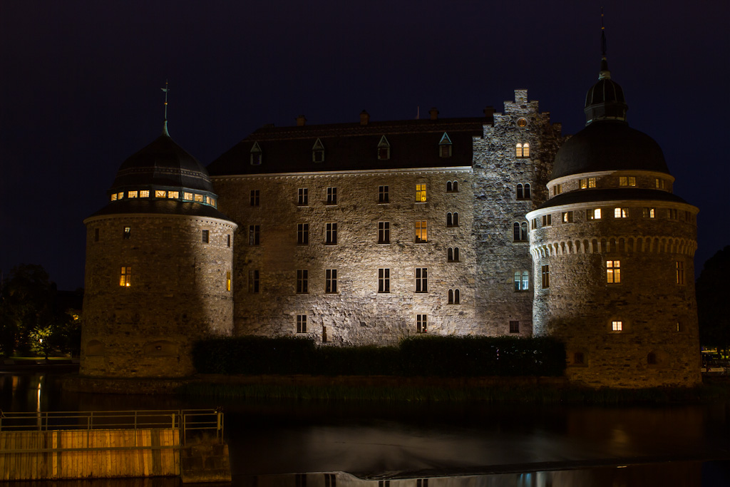 Night picture of Örebro Castle. Castle of Örebro, Central Örebro.